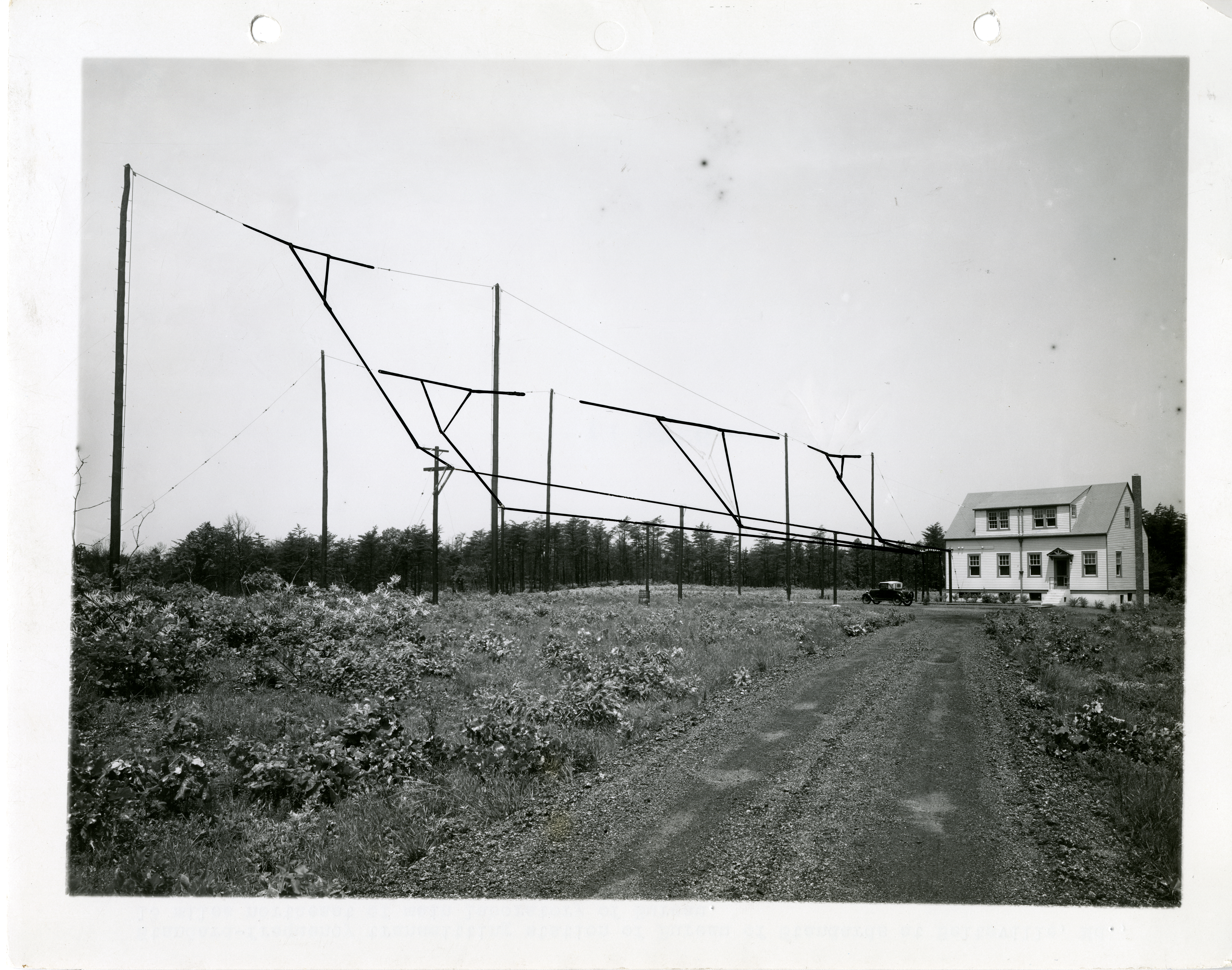 Standard-frequency transmitting station of NBS at Beltsville, MD, 13 miles northeast of main NBS laboratory